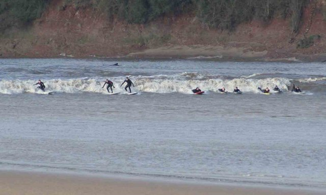 Surfers riding the Severn Bore This is surfers riding the wave of the Severn Bore as it passes Newnham. This picture was taken from near The Old Passage Inn on the Arlingham side of the river. The surfers only just join the bore at this point. It was one of the spring tides of 2006.